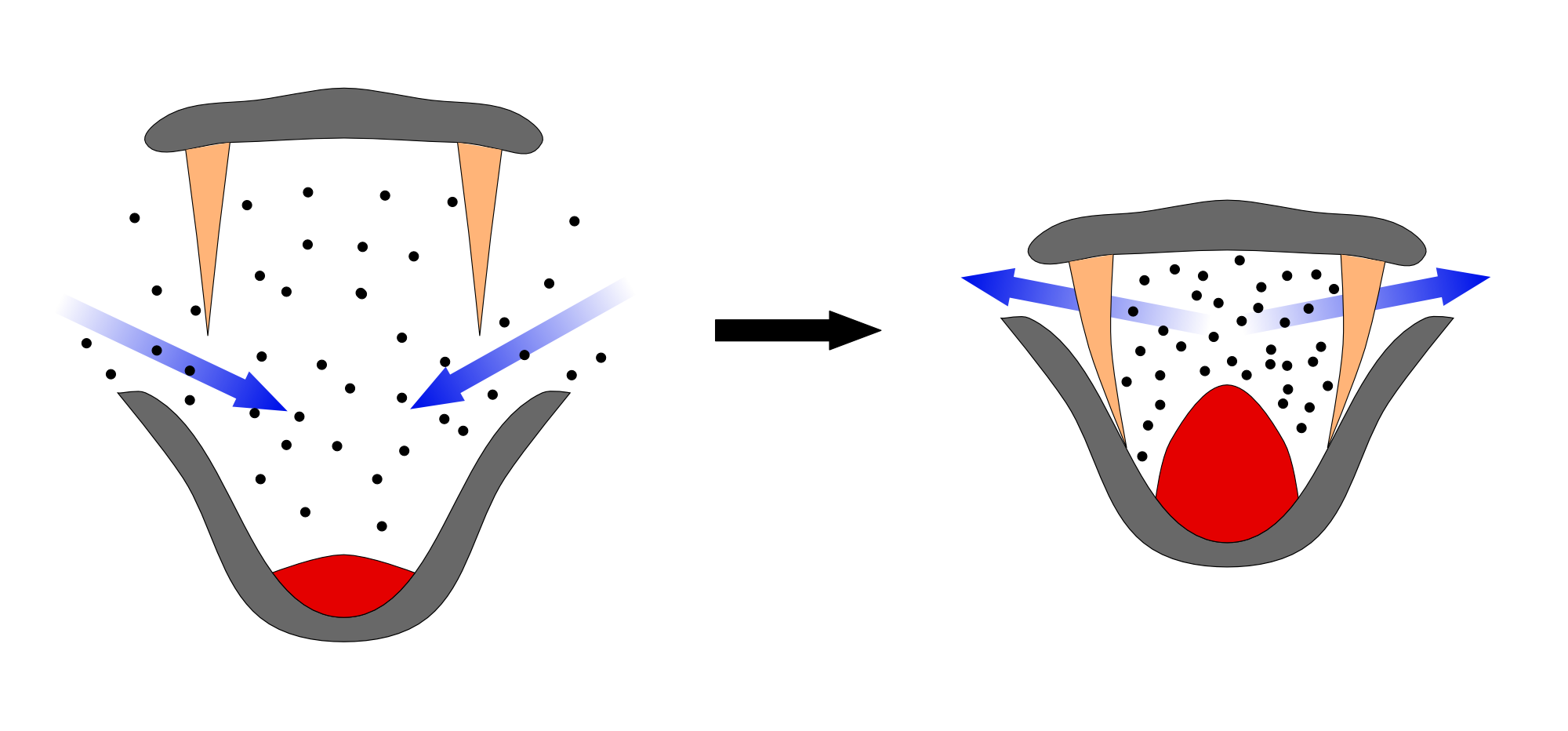 whale filter